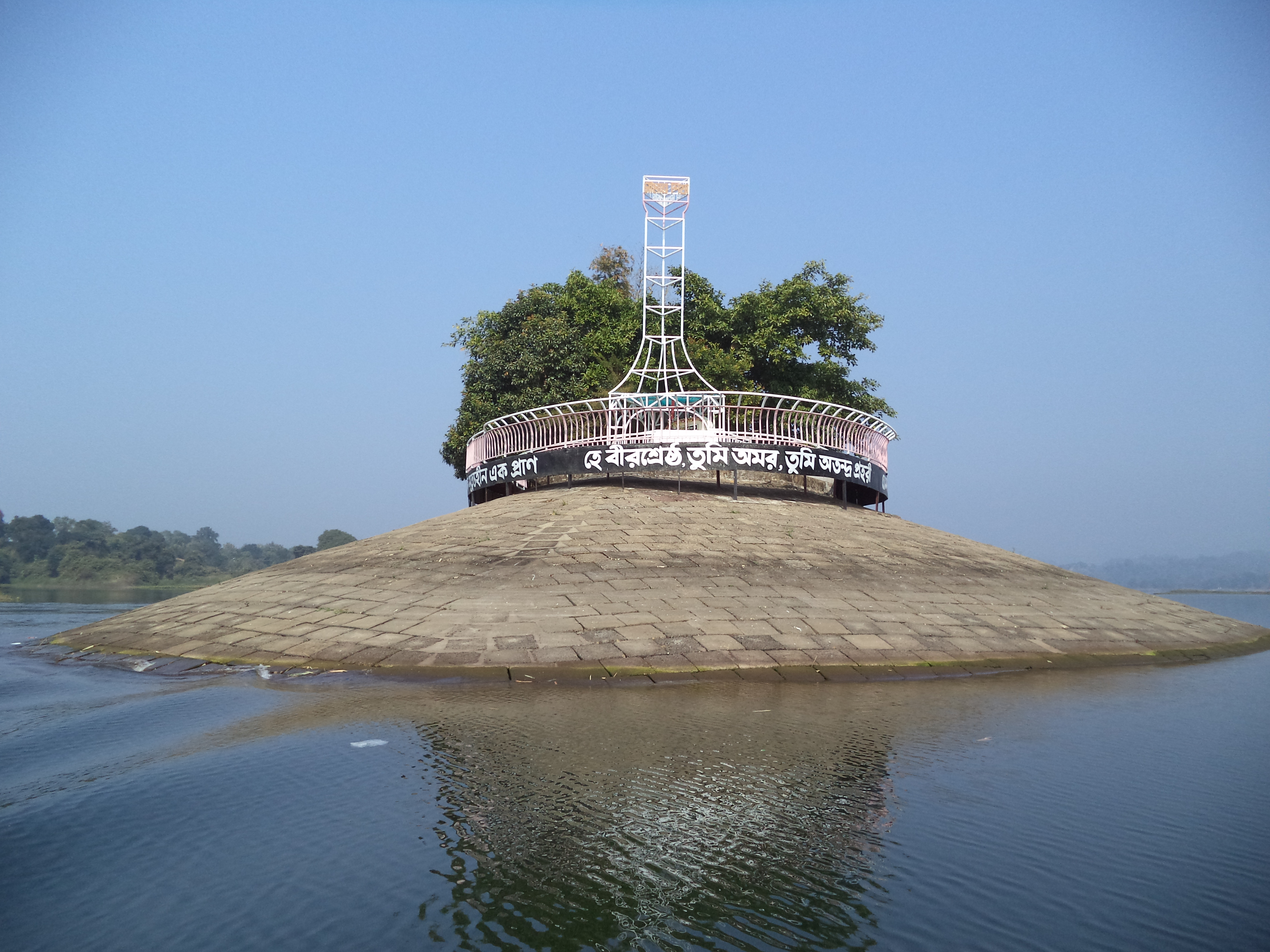 Shahid Lance Naik Munshi Abdur Rauf Bir Shreshtho Mausoleum at Burighat, Naniarchar, Rangamati-View from West